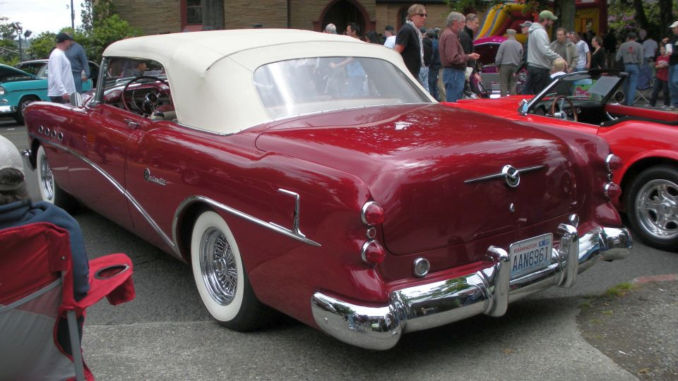 Photo taken at the Greenwood Car Show in Seattle Washington.